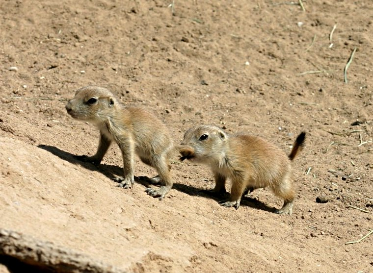 Two juvenile Black-tailed Prairie Dogs (Cynomys ludovicianus) at the Rio Grande Zoo in Albquerque, New Mexico, USA.